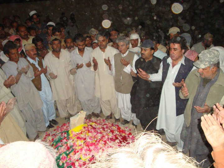 Dua being offered for Shaheed Mir Nooruddin Mengal.